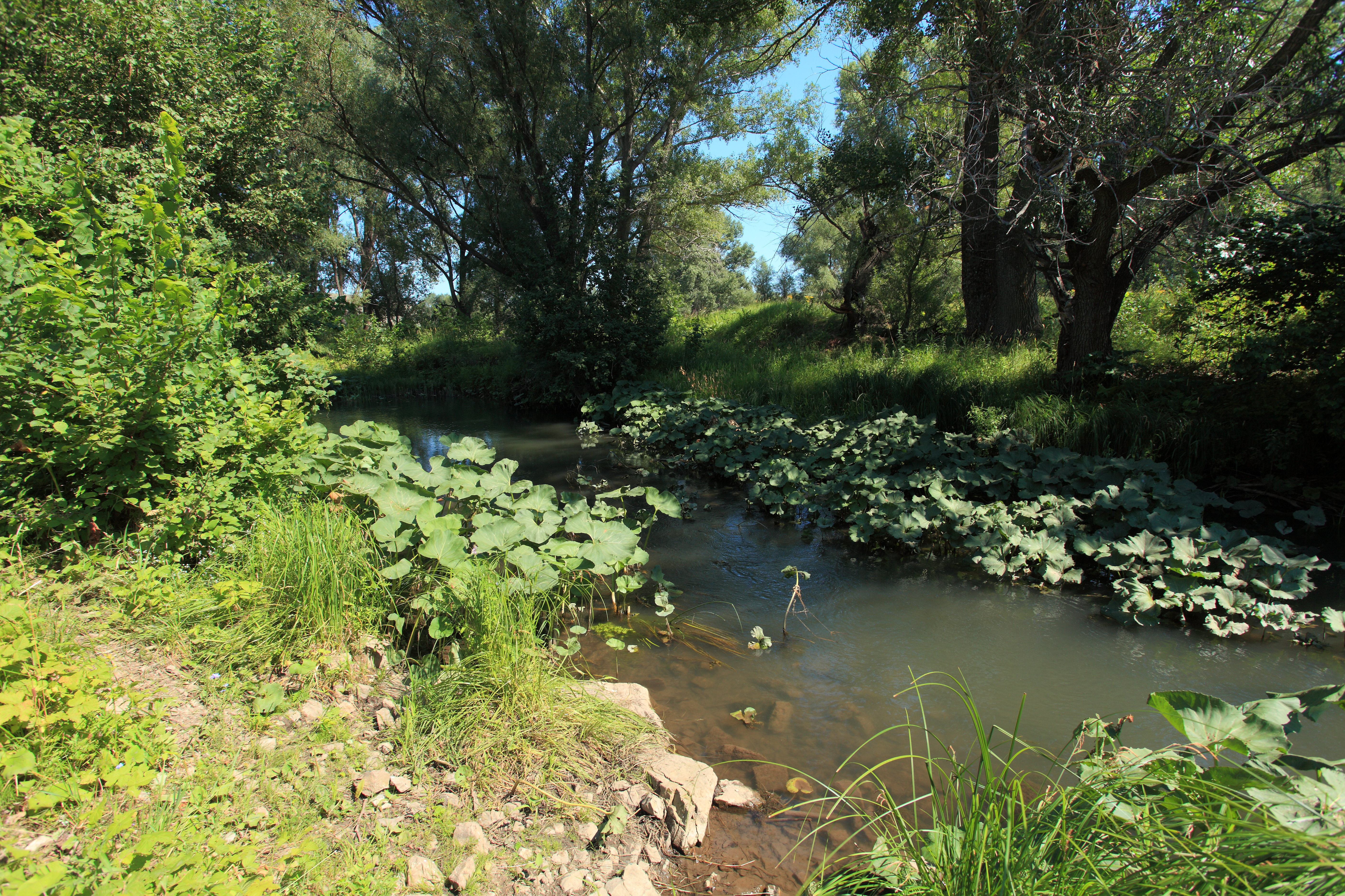 Uskalyk River